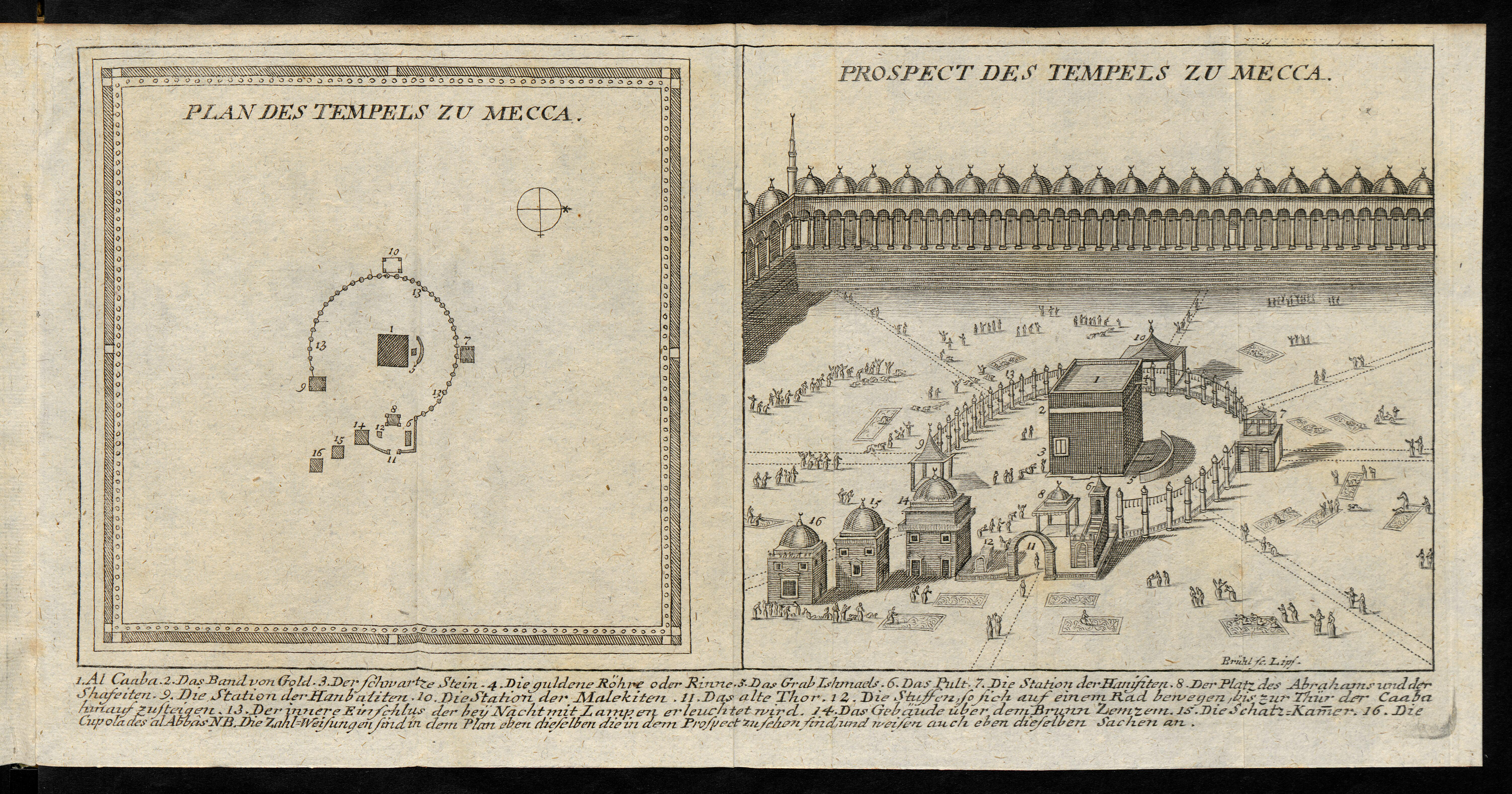 Copper engraving with blueprint and depiction of the interior buildings of the Sacred Mosque in Mecca, 1769